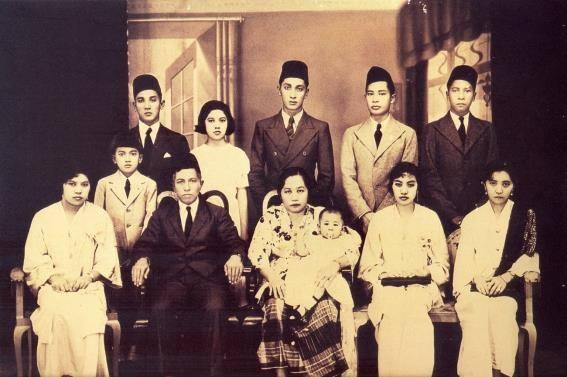 Yusof Ishak, first President of Singapore (last row, third from left) and his family in 1933.